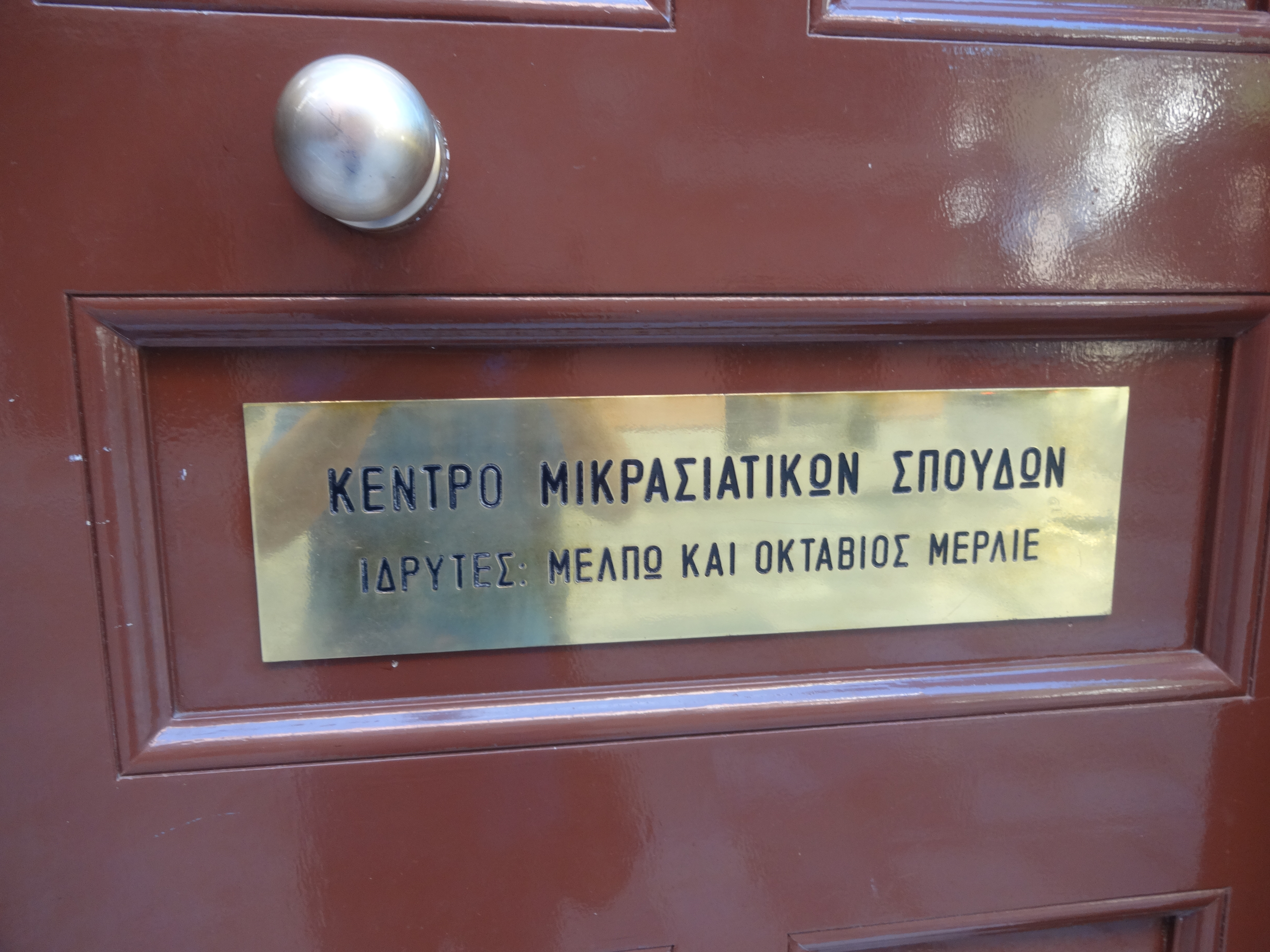 Center of Asia Minor study named after Octave and Melpo Merlier, Plaka, Athens.